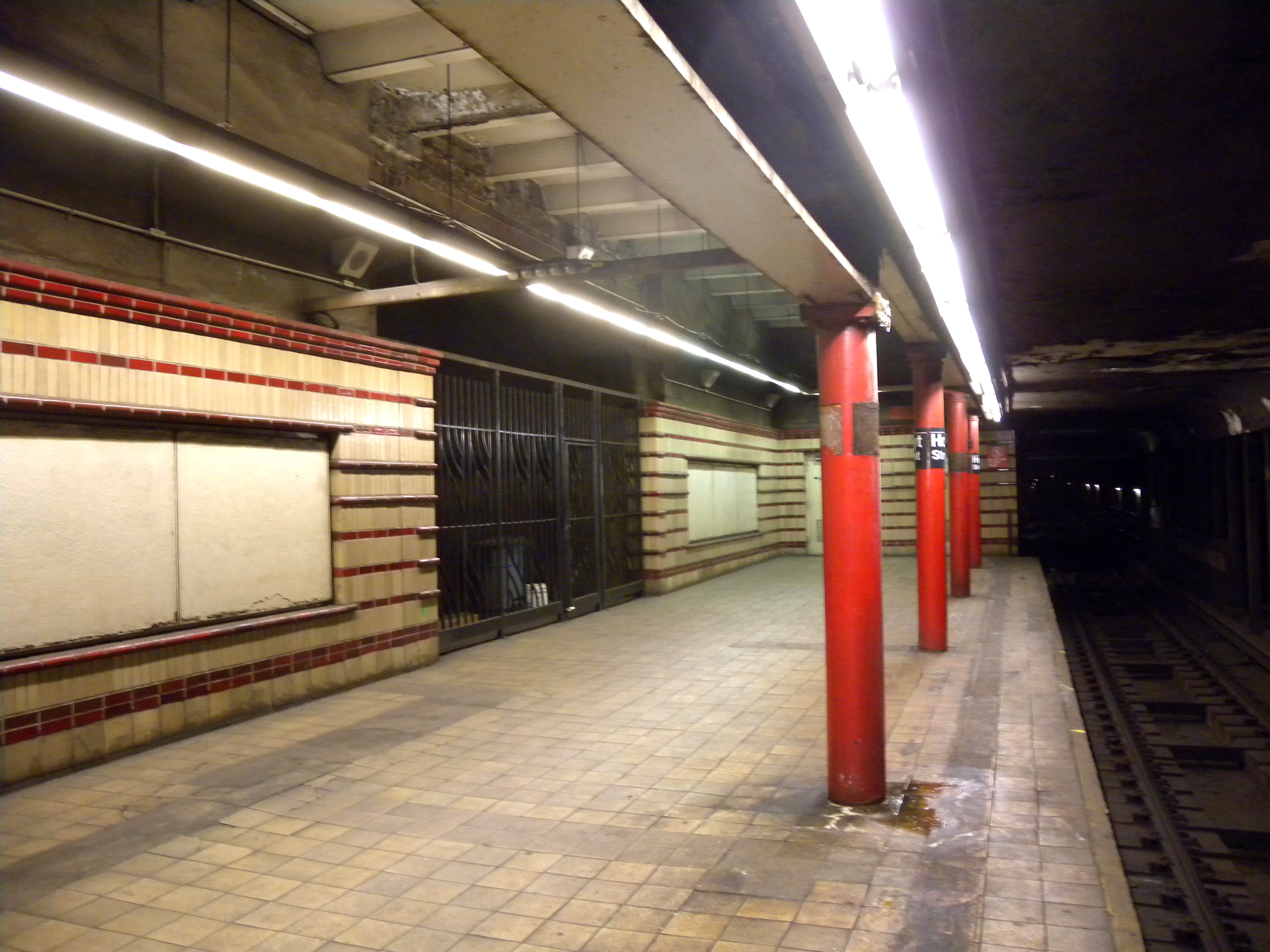 Looking west at west end of southbound platform of Hoyt Street – Fulton Mall (IRT Eastern Parkway Line) with closed Macy's door and concession stands.